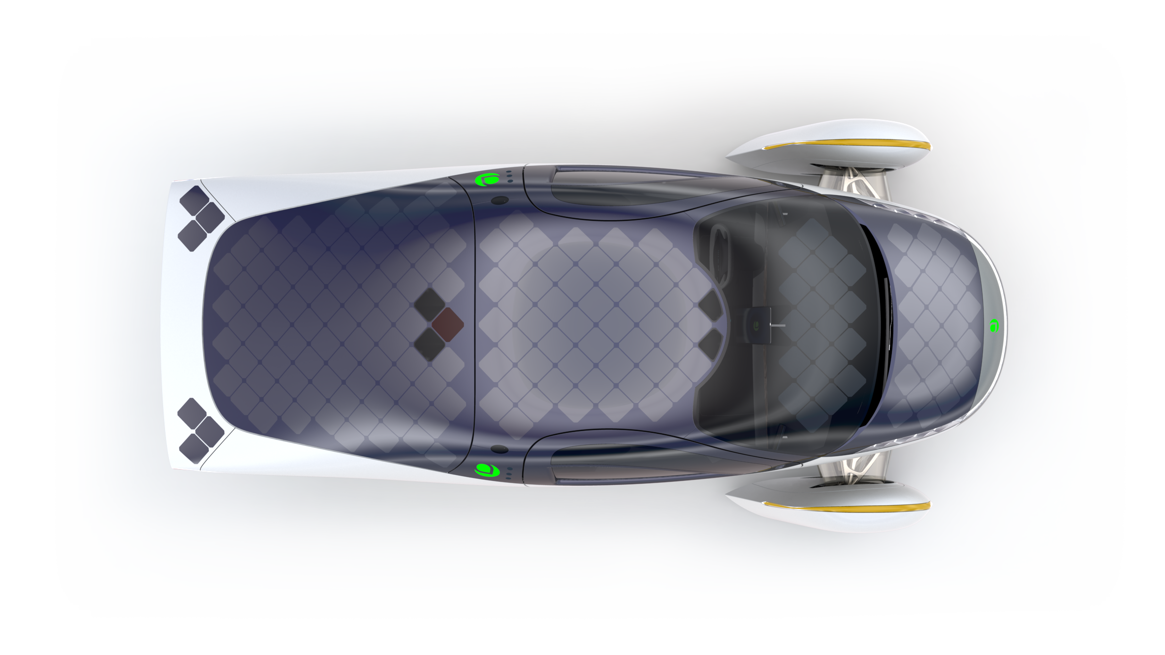 The Aptera "Never Charge" EV, a rendering of the overhead view of the 2019 body design illustrating the positions of the 700 watt rated solar cells.